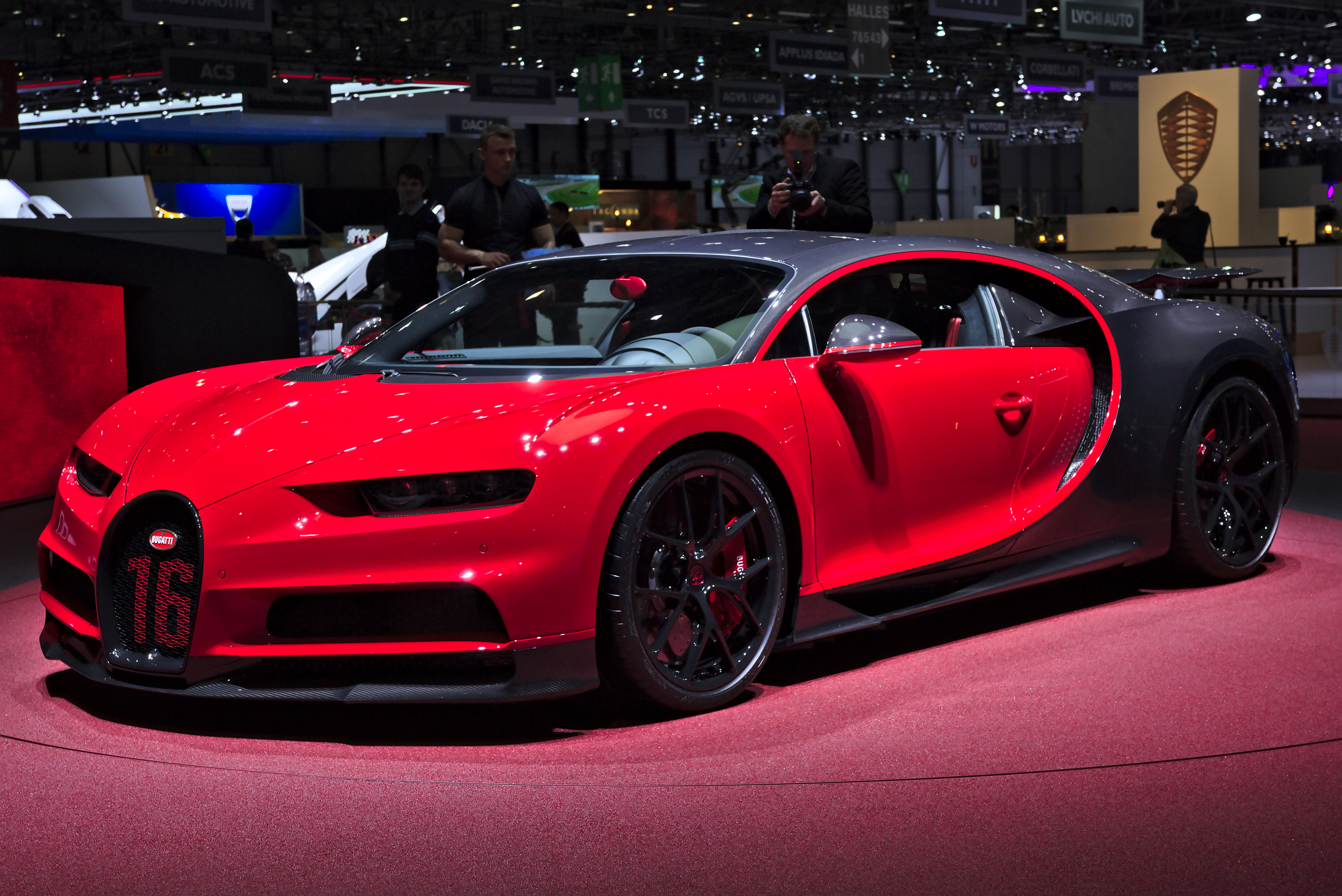 Bugatti Chiron Sport at Geneva Motorshow 2018